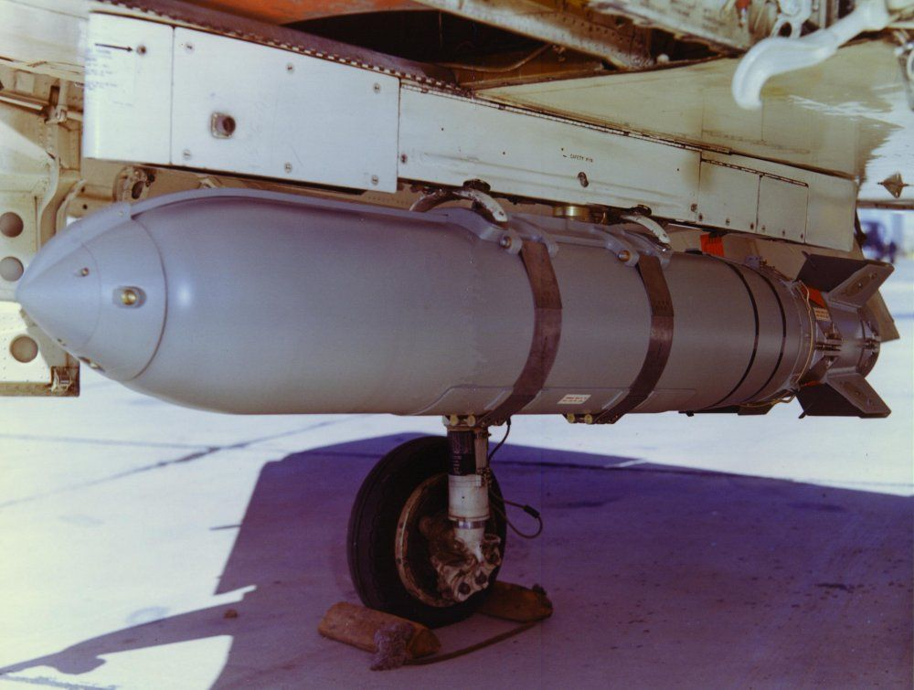 Weteye MK116 Mod O Nonpersistent GB Chemical Bomb